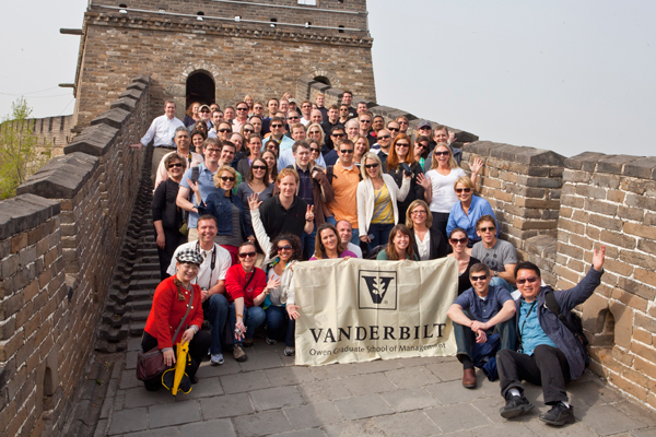 EMBA students in China